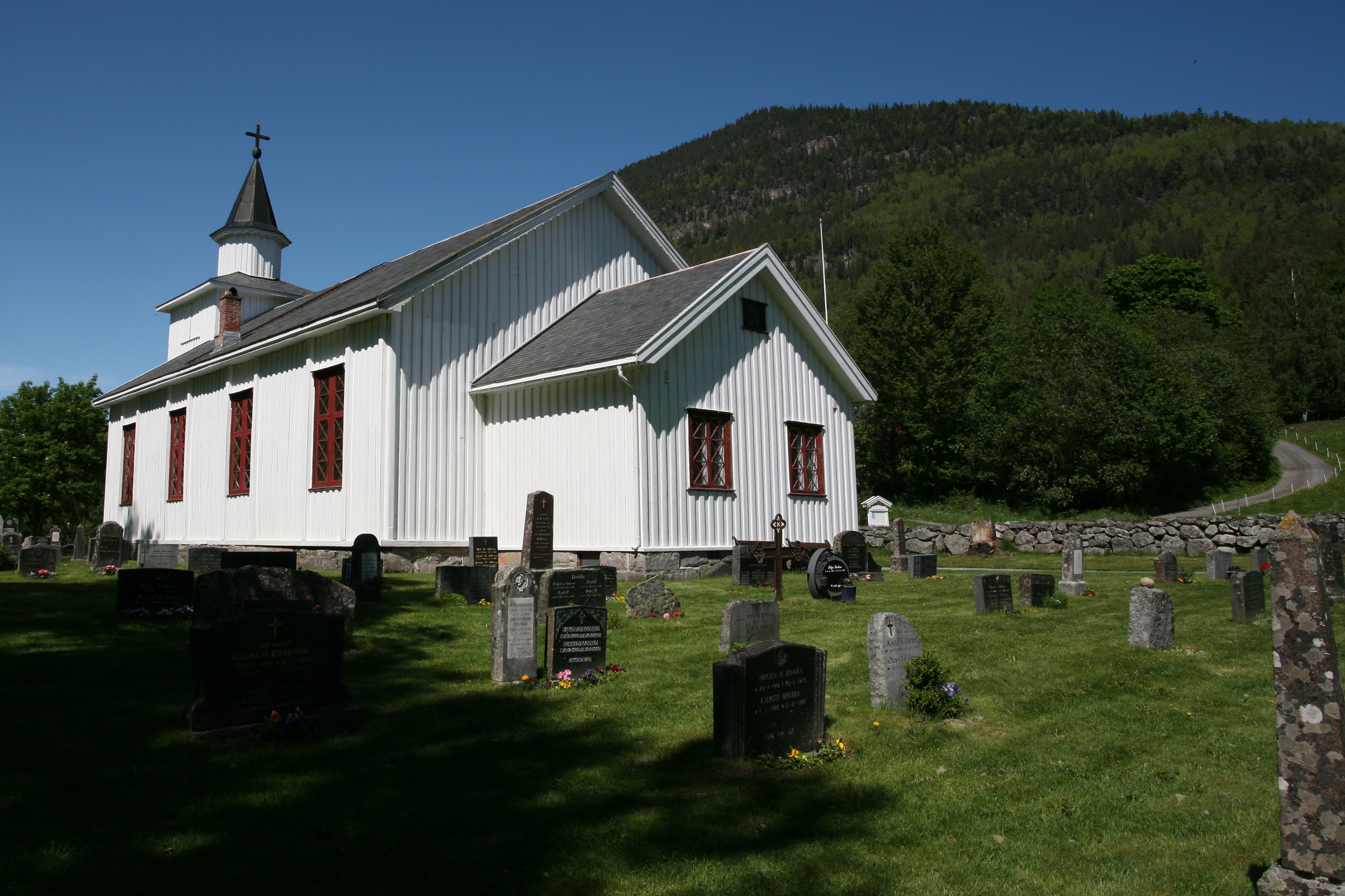 Picture of Atrå kirke (Telemark - Norway)